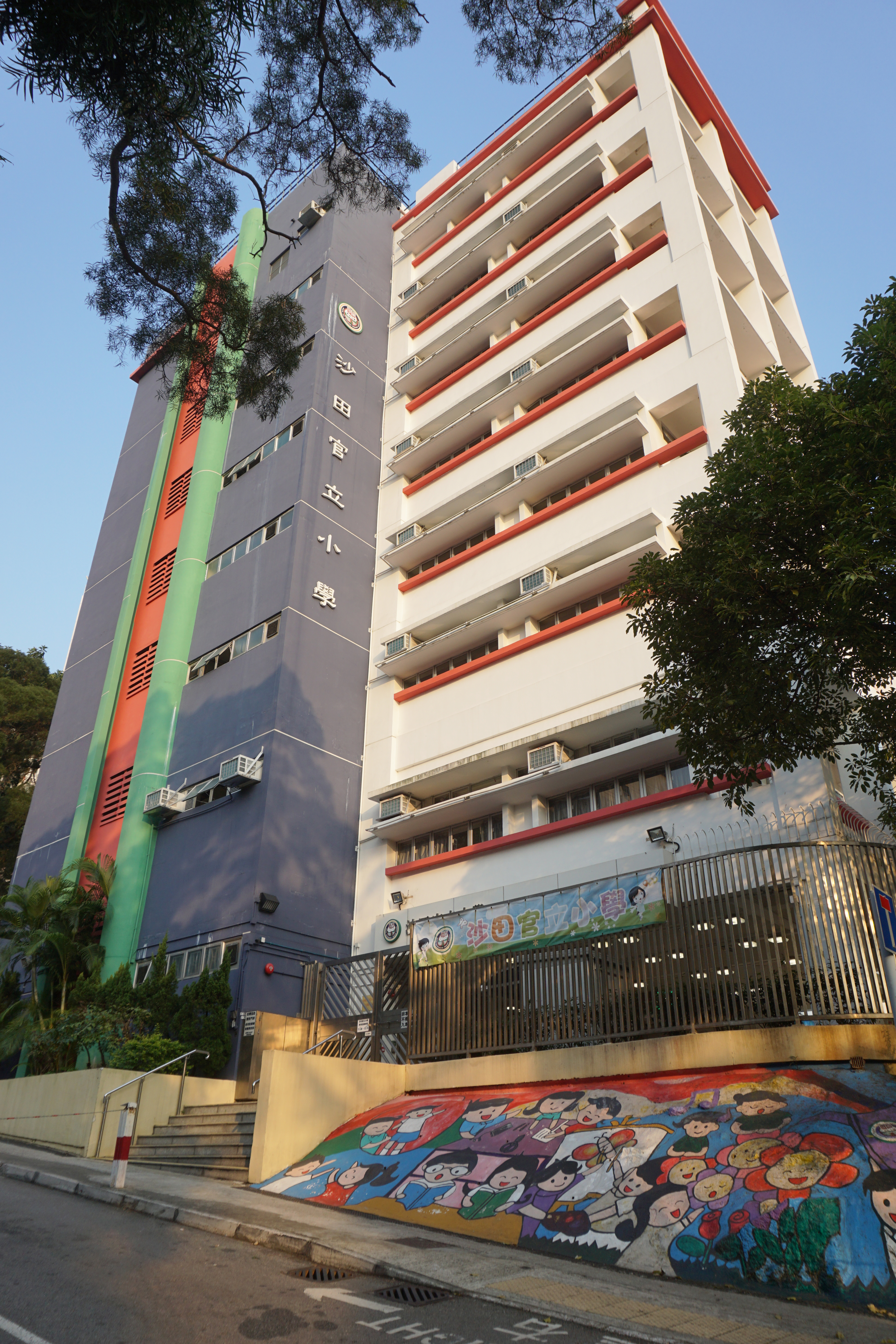 Shatin Government Primary School in Sha Tin Tau, Hong Kong.